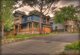 A house in Bouldin Creek